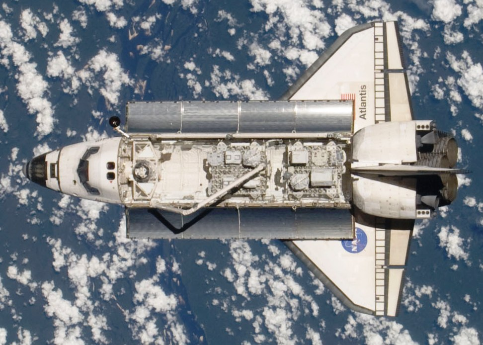 Space Shuttle Atlantis as seen from the International Space Station as she approached for docking during STS-129, with ExPRESS Logistics Carriers 1 & 2 visible in the Orbiter's payload bay.